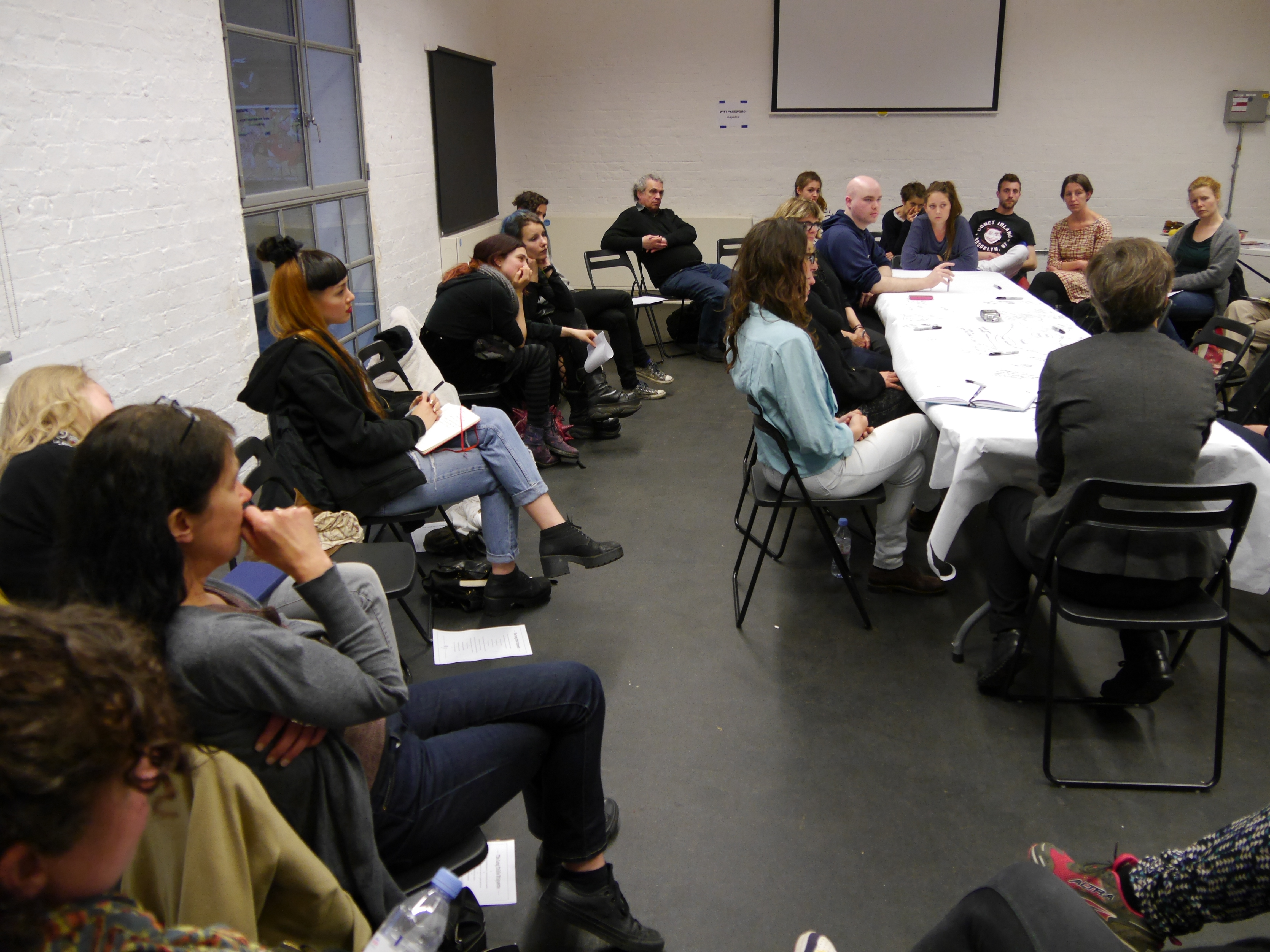 Long Table on Live Art and Feminism with Lois Weaver, 25 April 2014